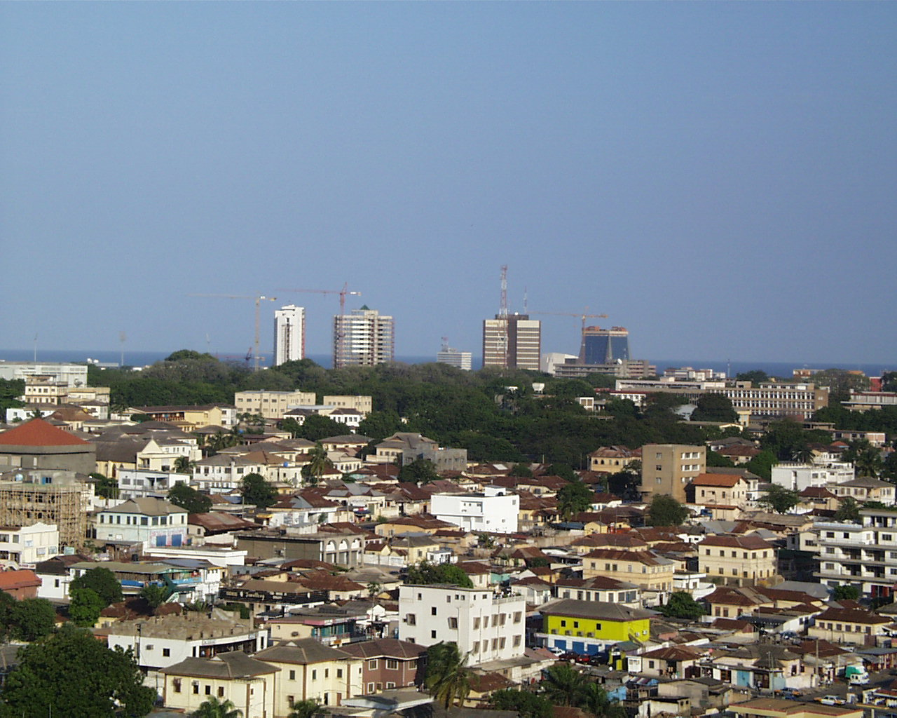 Skyline of Accra (en), Ghana